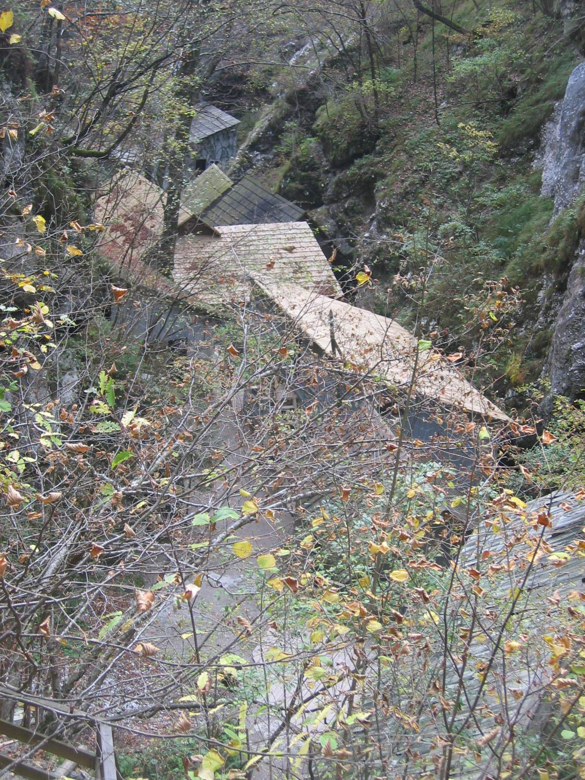 Partisan hospital "Franja" near Cerkno, Slovenia (WW2) photo:Ziga 18:05, 29 October 2006 (UTC)